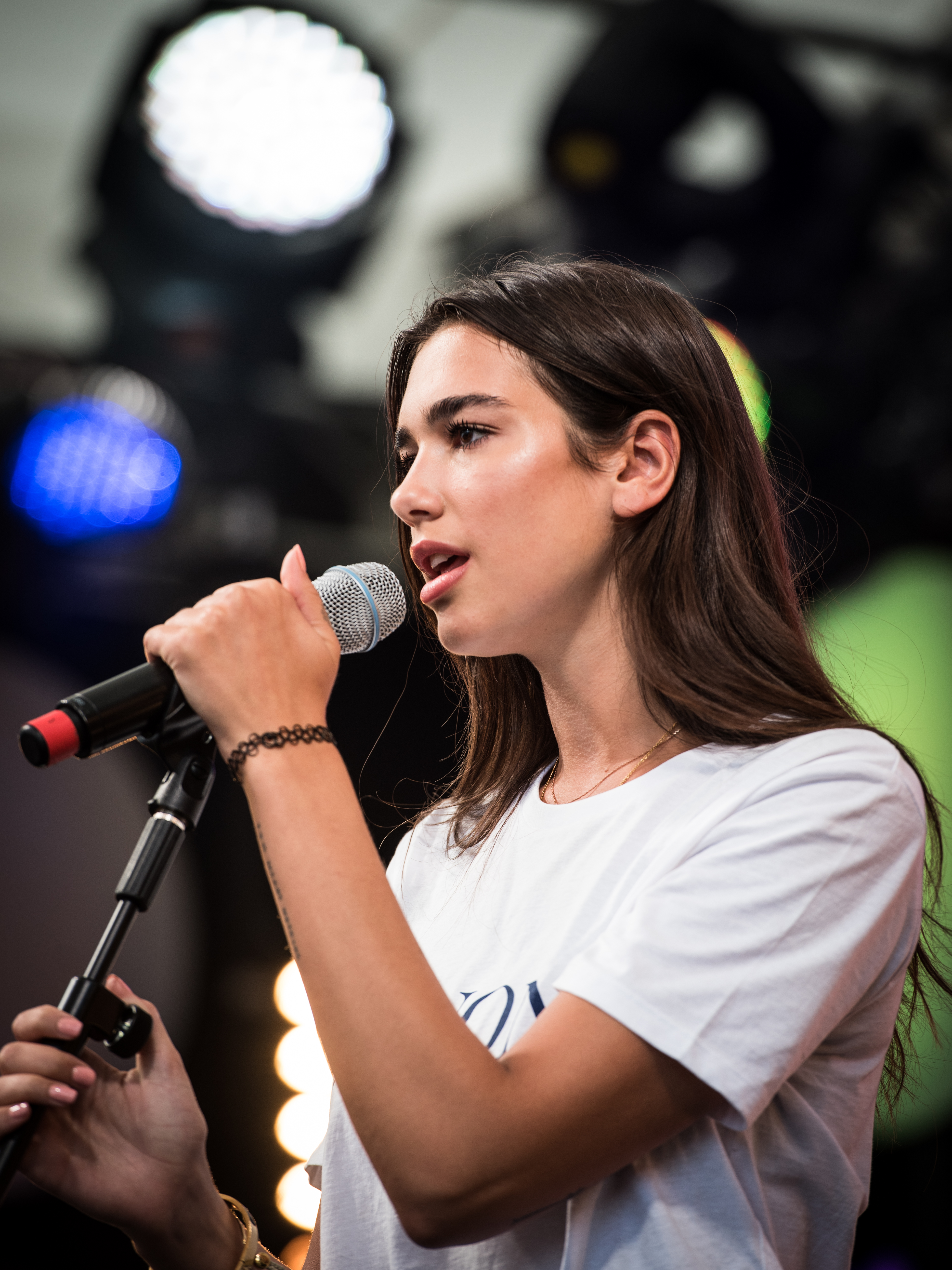 British singer and songwriter Dua Lipa at the SWR3 New Pop Festival 2016